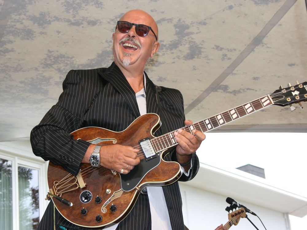 Toscho Todorovic guitar: 1977 Ibanez 2467 WN (equipment list)